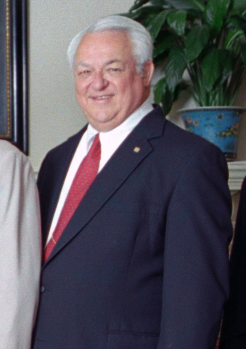 "Photograph of President William J. Clinton Posing with Arkansas Governors at the Governor's Mansion"